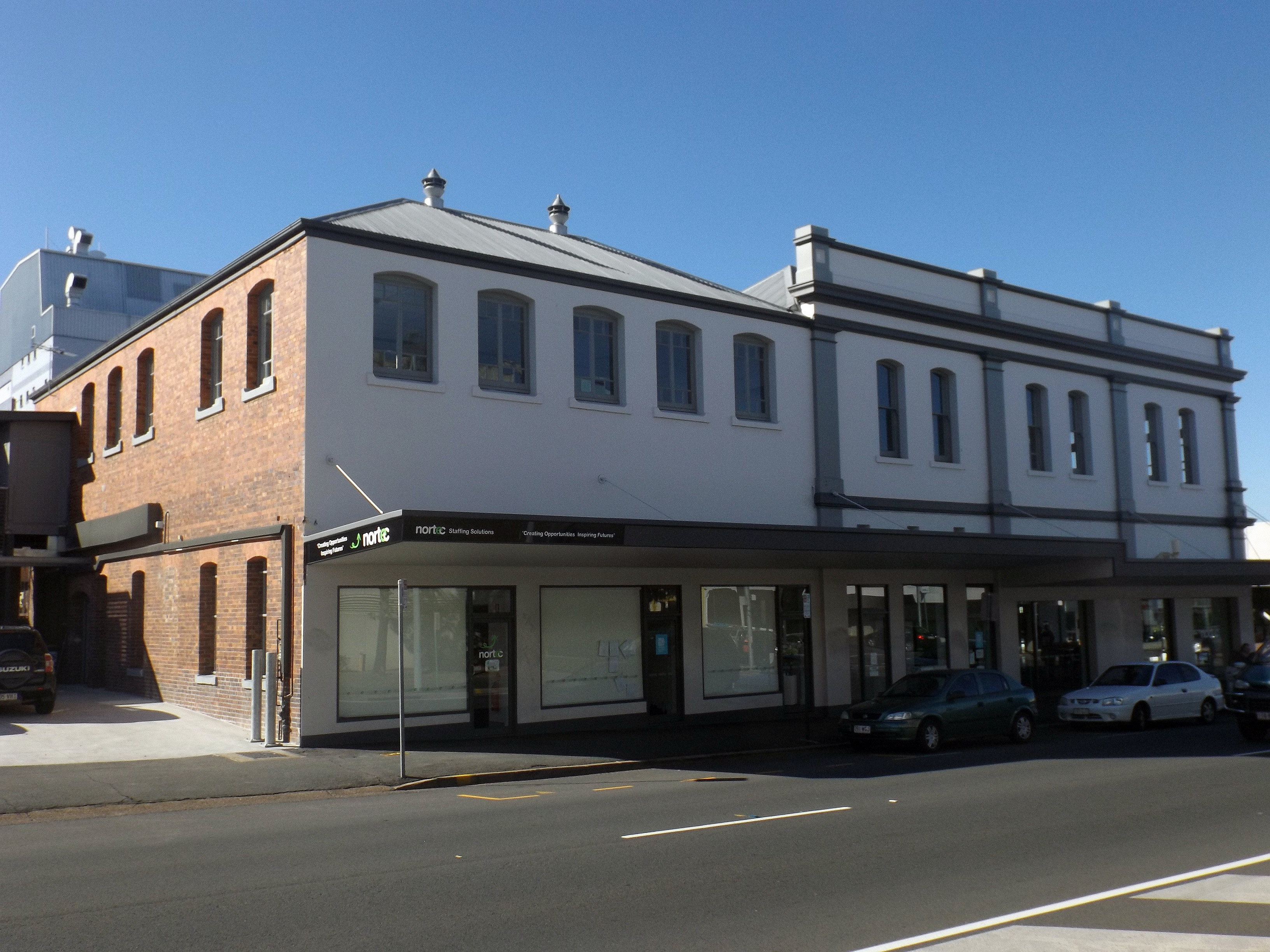 Photo of Ipswich & West Moreton Building Society building at Ipswich, Queensland, Australia.